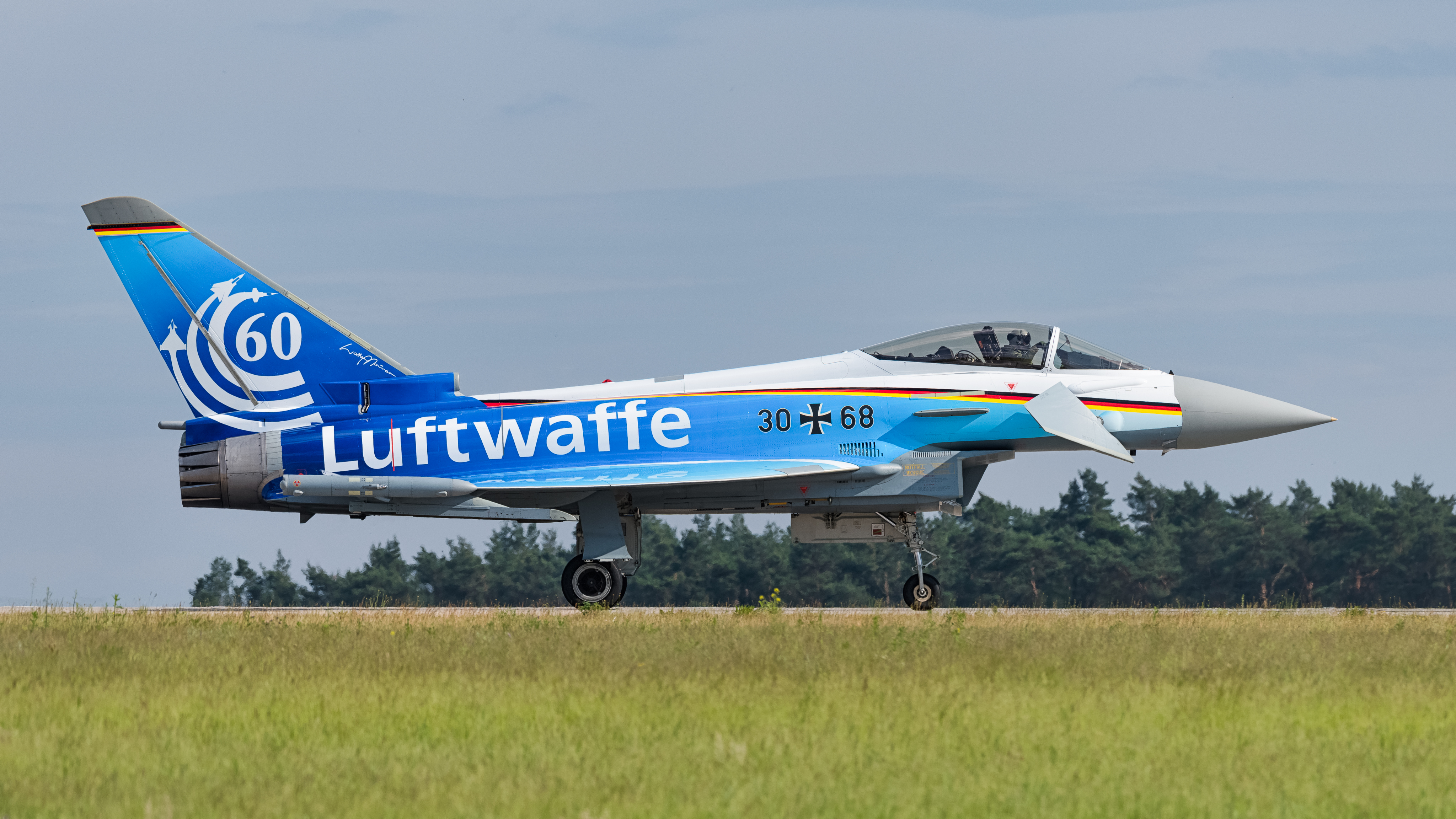 Eurofighter Typhoon EF2000 (reg. 30+68) of the German Air Force (Deutsche Luftwaffe, Taktisches Luftwaffengeschwader 74) at ILA Berlin Air Show 2016.